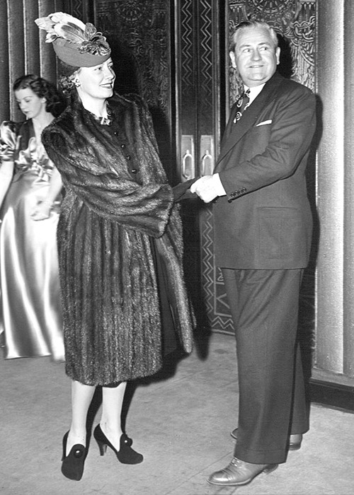 A candid photograph of actress Irene Dunne with her husband, Dr. Frank Griffin